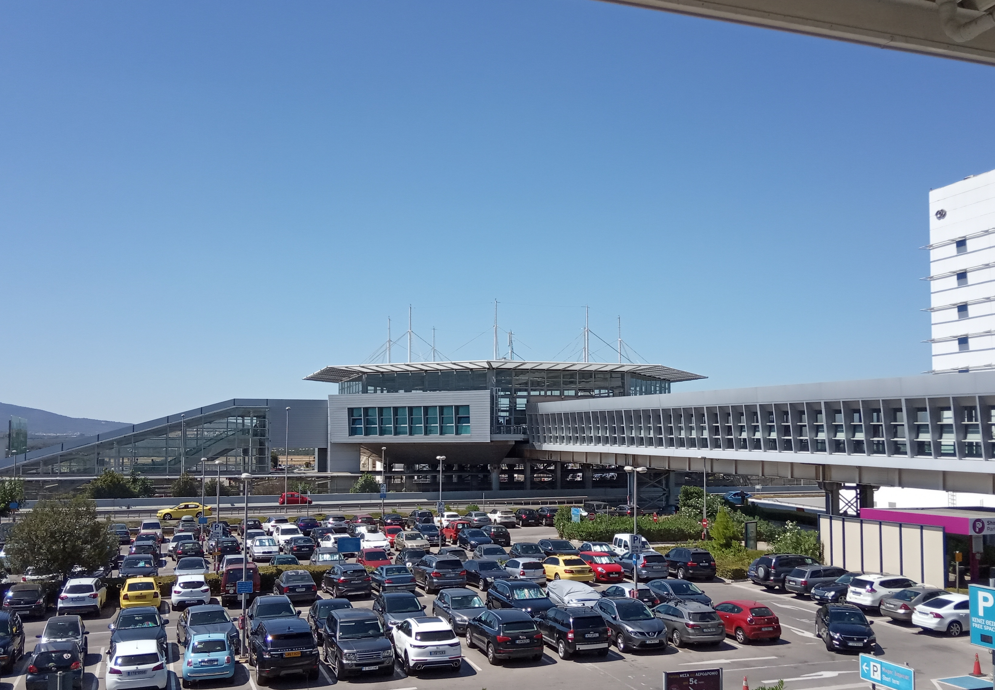 Athens International Airport train station. View of the open-air short term parking lot and the footbridge connecting the station with the main terminal of the airport.